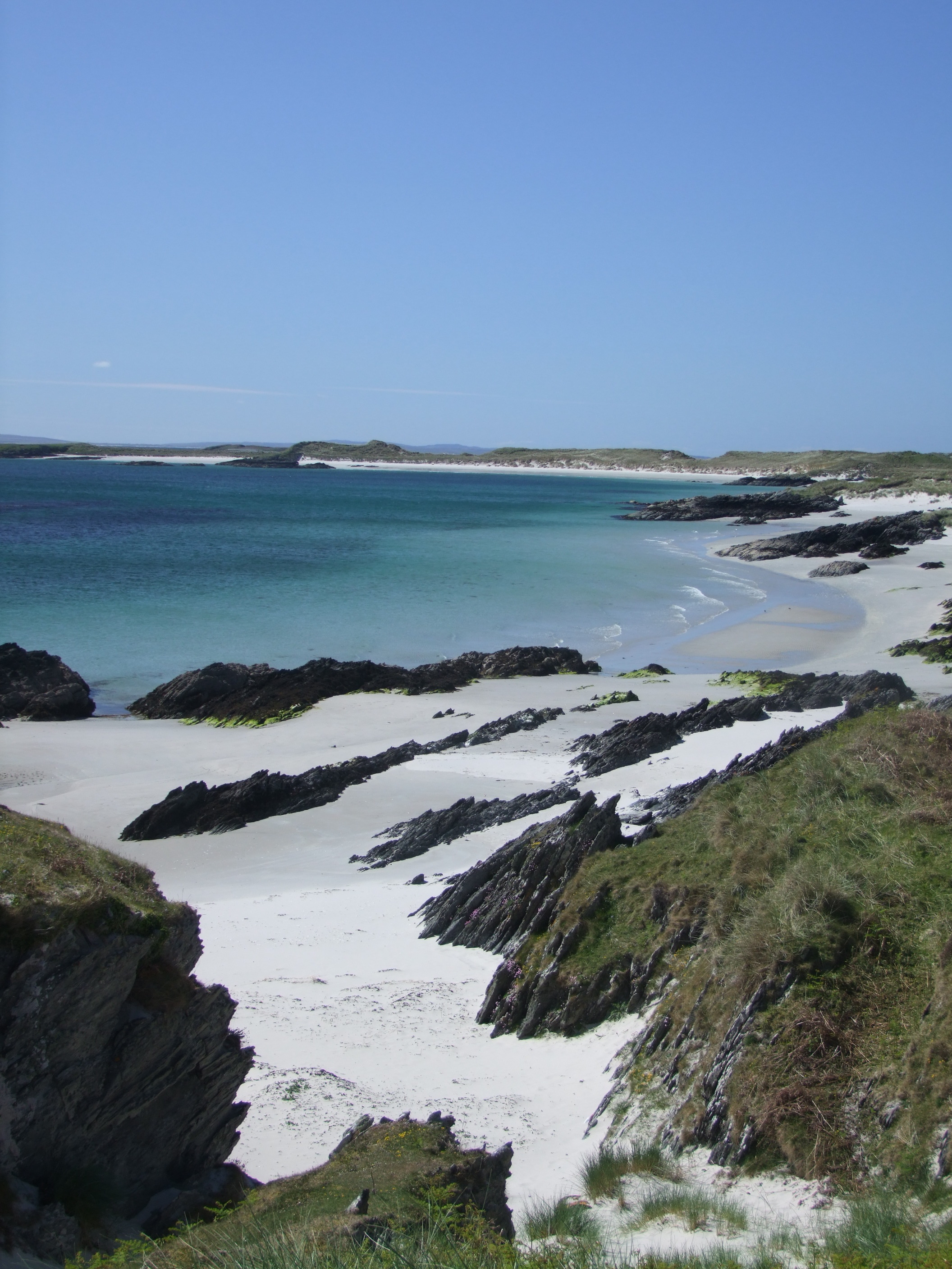 Walking south from Cable Bay to Sir John's Pool, isle of Colonsay, Inner Hebrides, Scotland. Islay and Jura in distance.